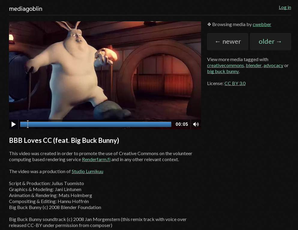 Screenshot of Creative Commons license tagging (under the media tags) in GNU MediaGoblin 0.2.1.